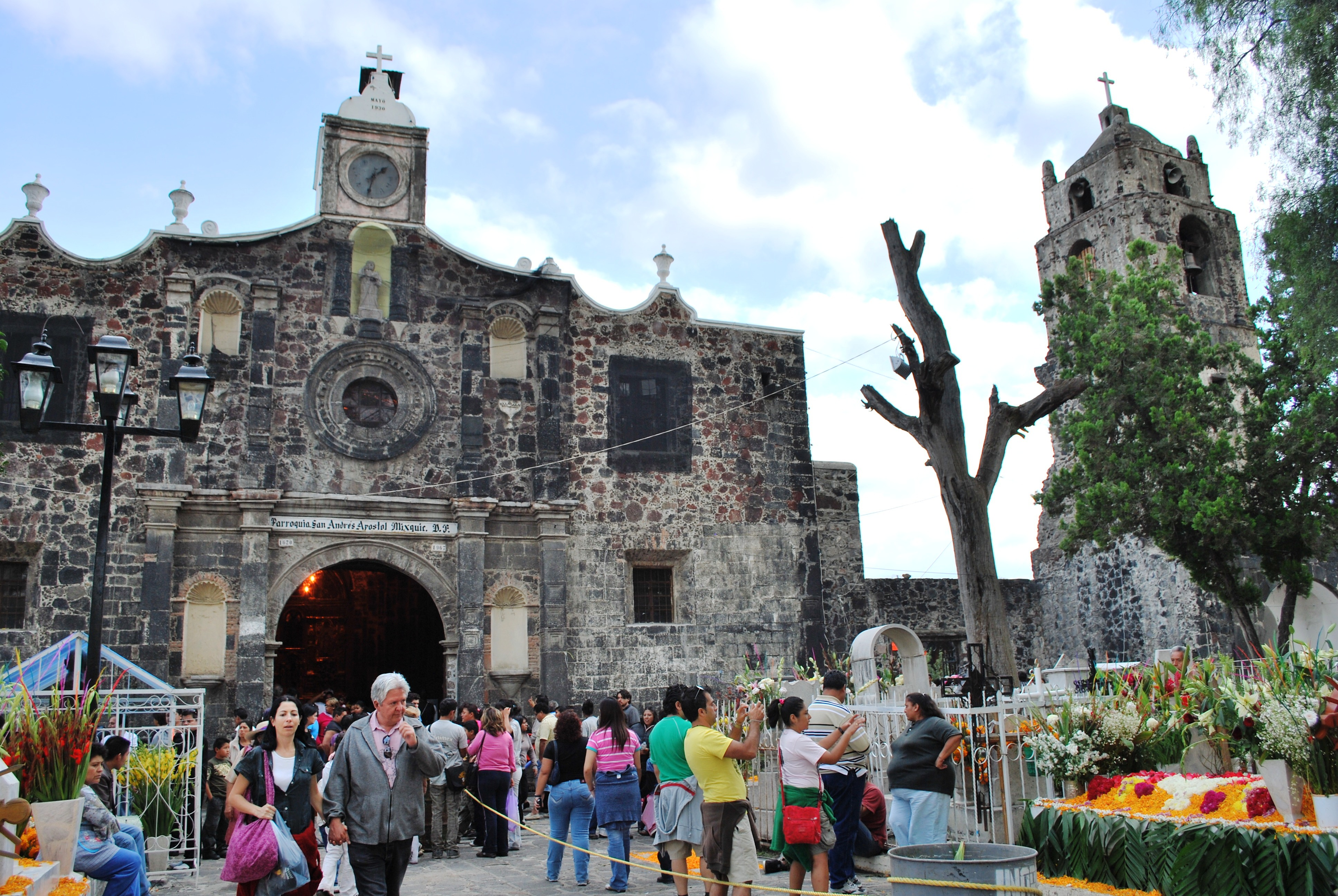 Church and belltower of San Andres Apostol in San Andres Mixquic, Mexico City. Photo taken on Day of the Dead